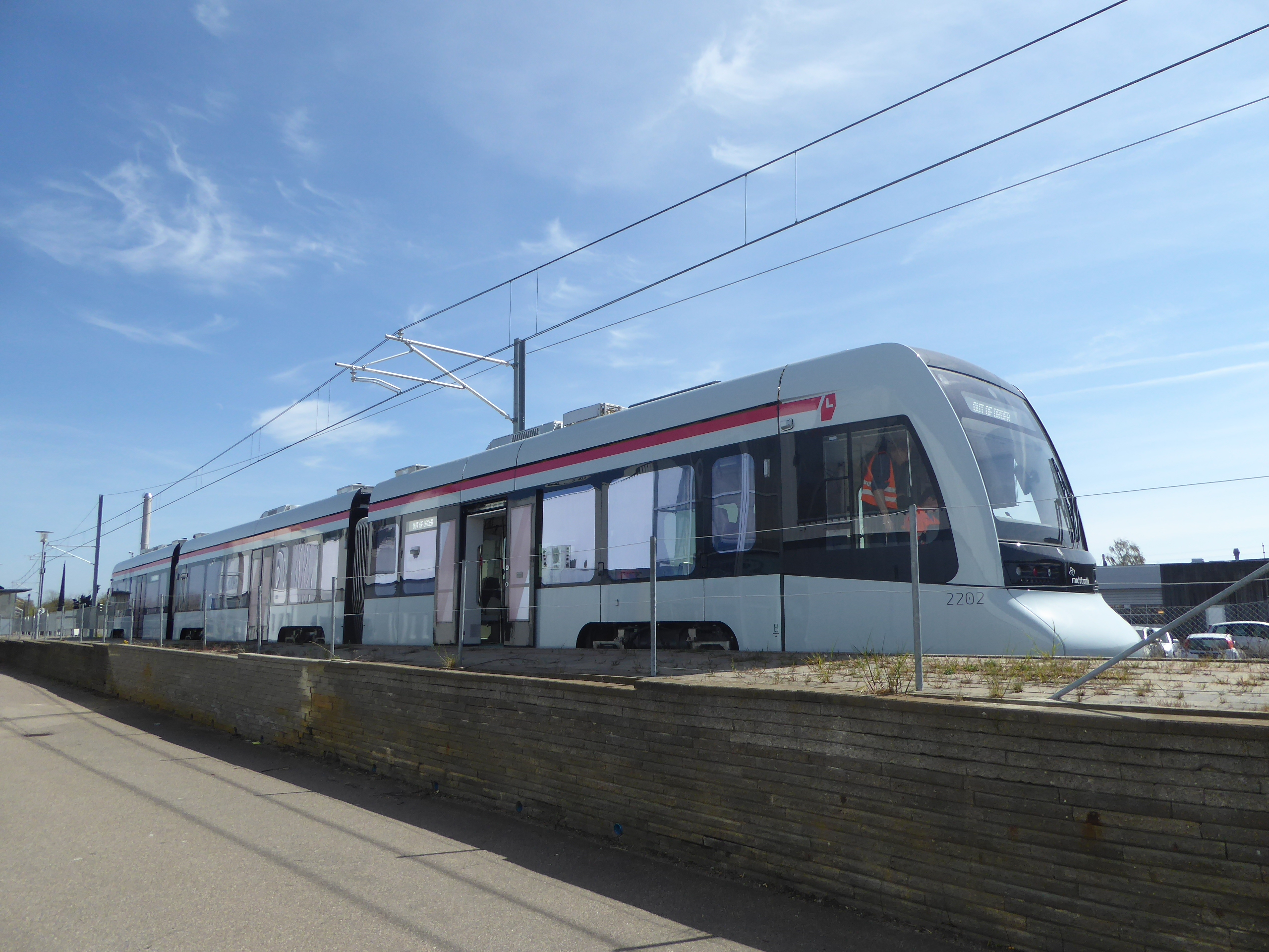 New Stadler Tango tram during a test run at Øllegårdsvej Station on Aarhus Letbane in Denmark.